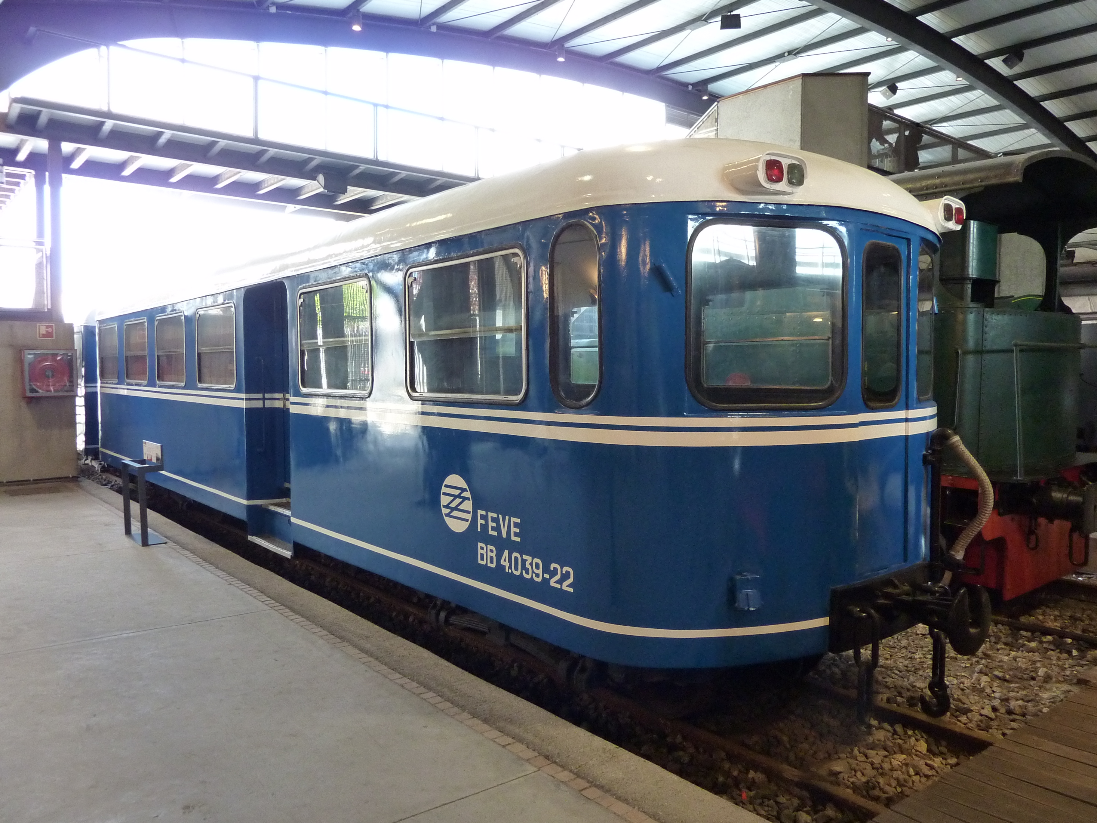 Rail-bus FEVE BB 4.039-22, in Asturian Railway Museum, Gijón, Asturias, Spain